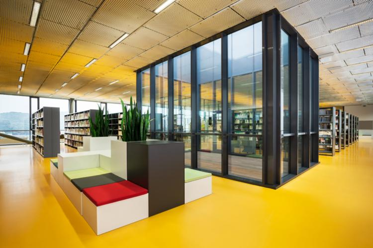 Research Library